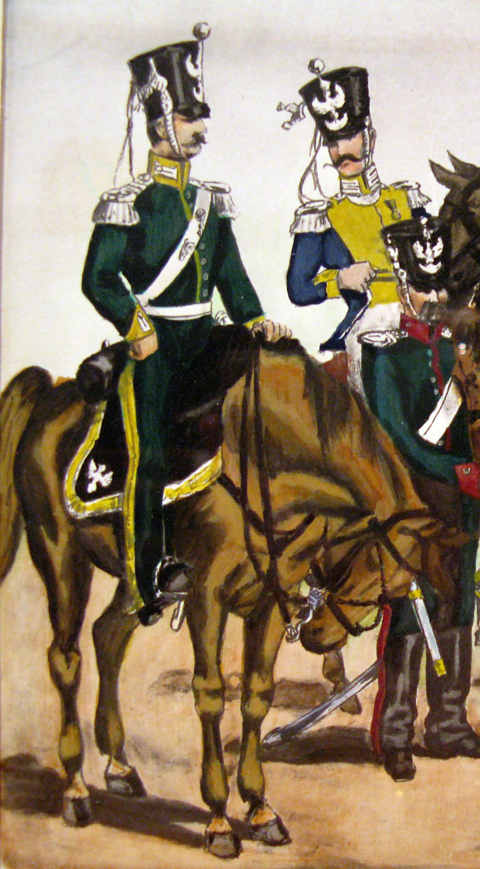 5th Regiment of Chasseurs of Guard of Polish Army of November Uprising